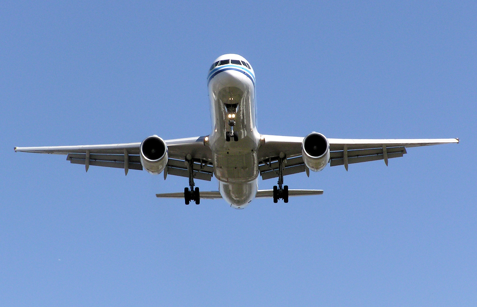 Front view of a Turkmenistan Airlines Boeing 757 landing at London Heathrow Airport, England. The registration is not known.